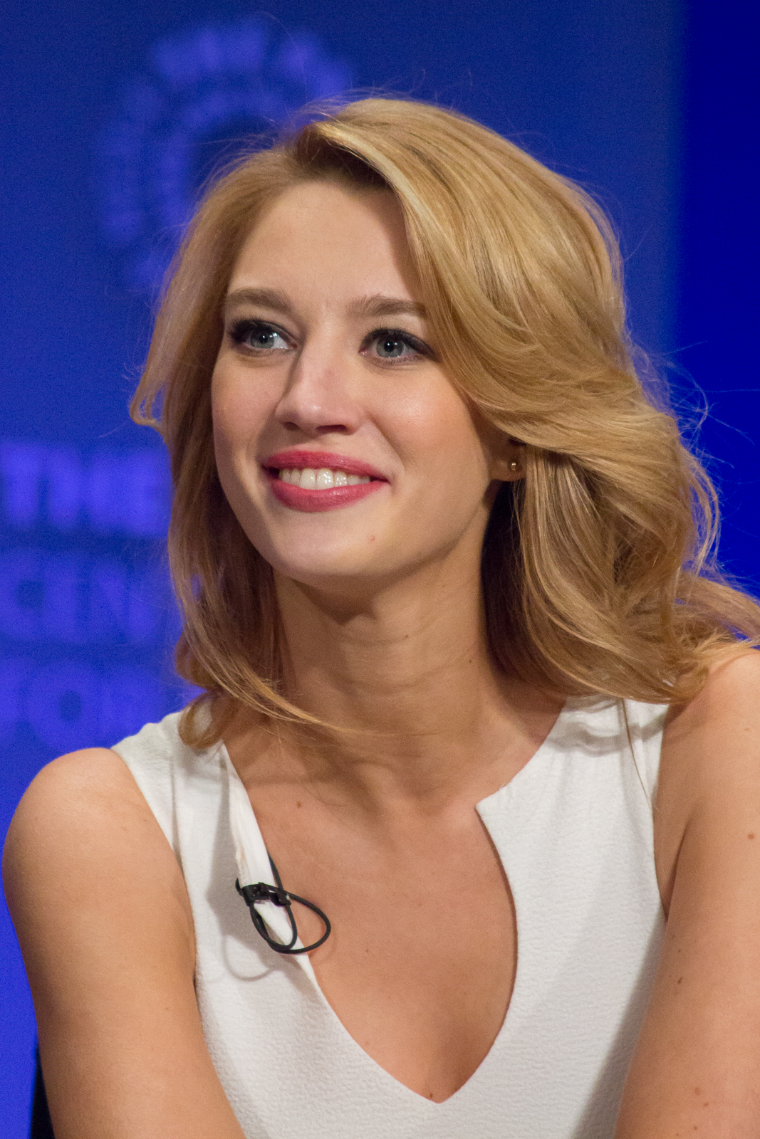 Actress Yael Grobglas at the 2015 PaleyFest presentation for the TV show Jane the Virgin